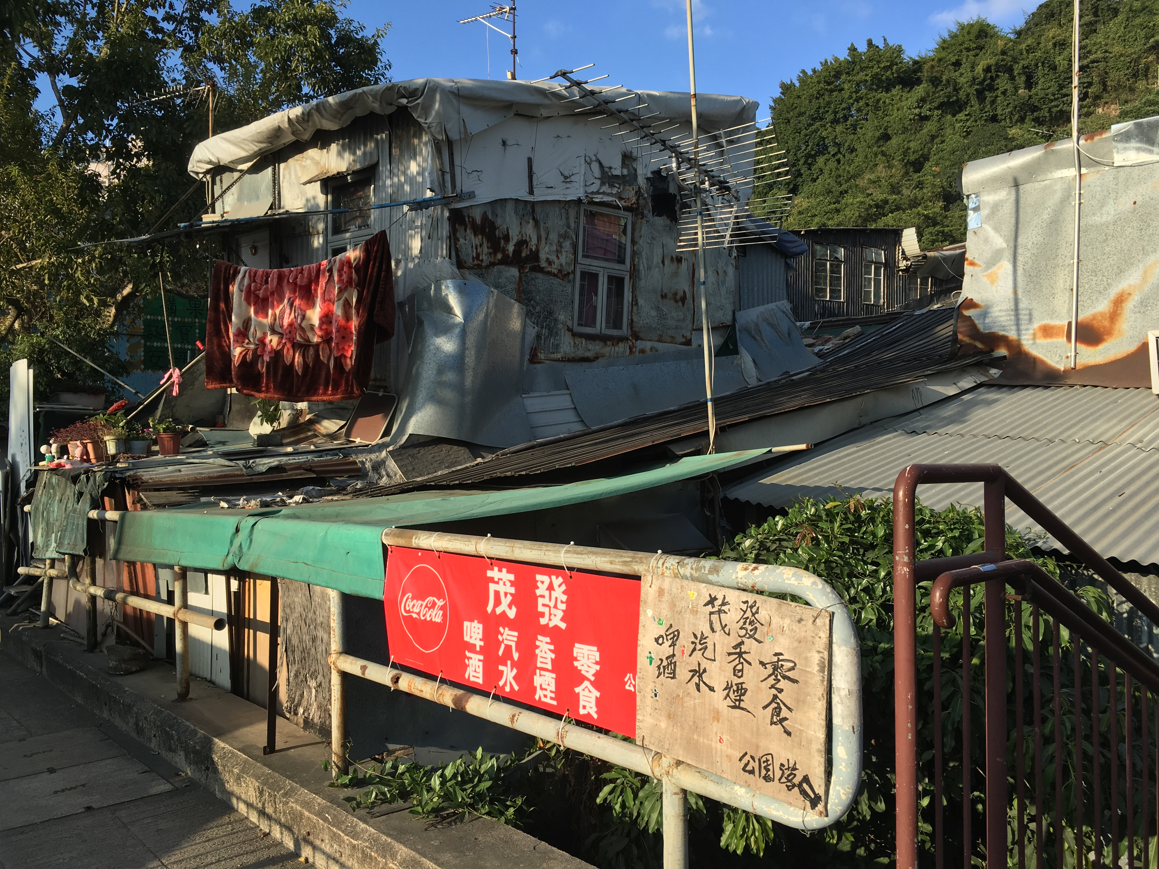 A squatter house built by iron sheets in the Cha Kwo Ling Village, next to Cha Kwo Ling Road